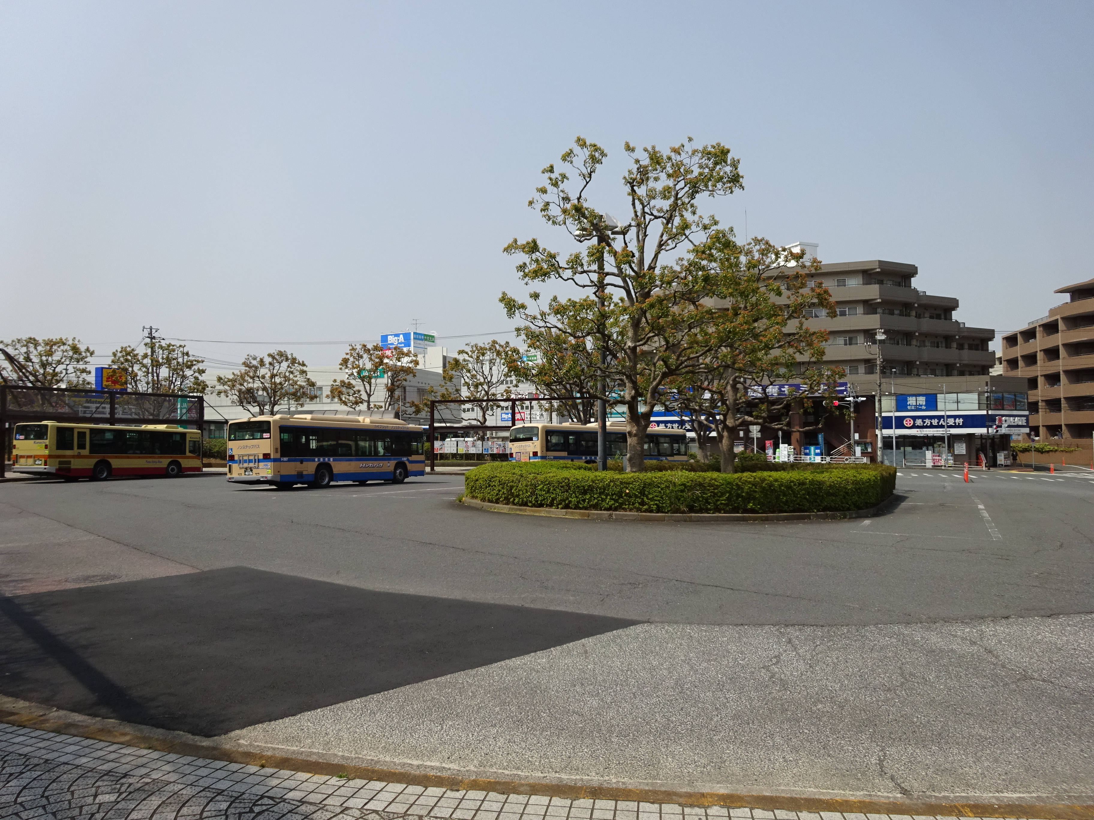 In front of Kaminagaya Station